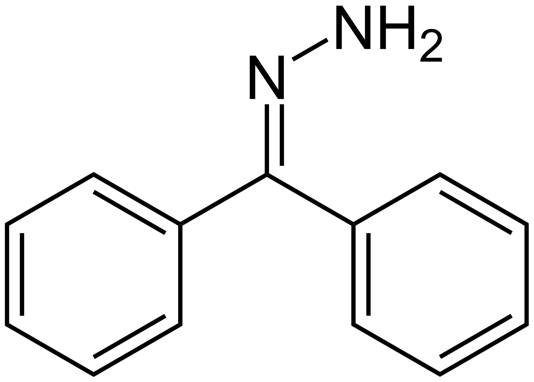 Structure formula of benzophenone hydrazone frist version typeset with PPCHTeX \startchemical \chemical[SIX,B,C,MOV1,B56,MOV6,+SB4,EB4,SB5,Z56][N,NH_2] \chemical[MOV2,B,C] \stopchemical